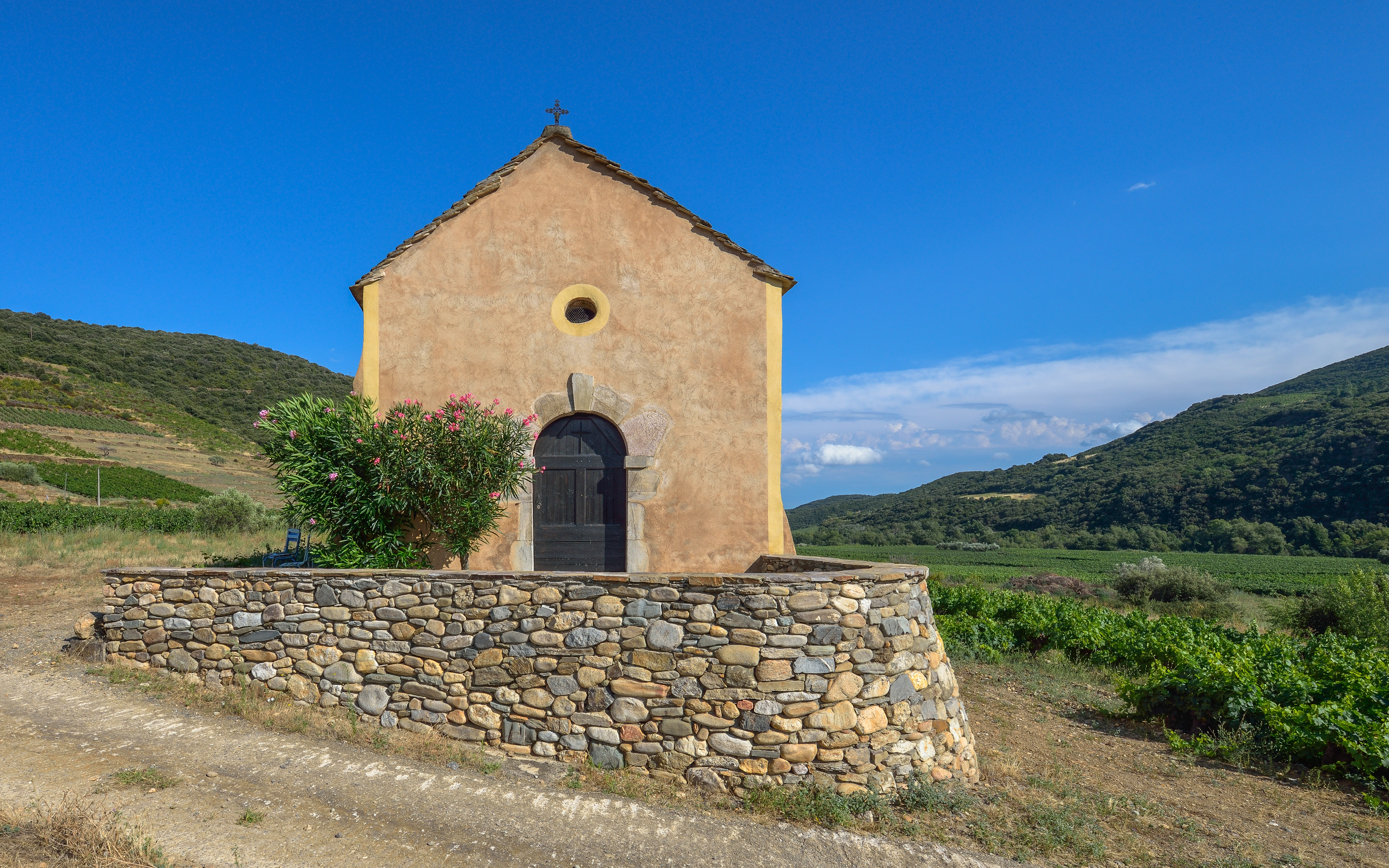 Chapel of Saint-Pontien (date unknow, cited for the first time in a charter in the year of 940). Hamlet of Ceps, Roquebrun, Hérault, France. Haut-Languedoc Regional Natural Park.